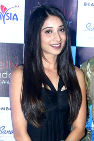 Vrushika Mehta on launch of Telly Calendar